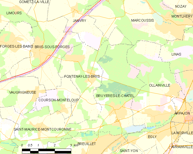 Map of French municipality Fontenay-lès-Briis